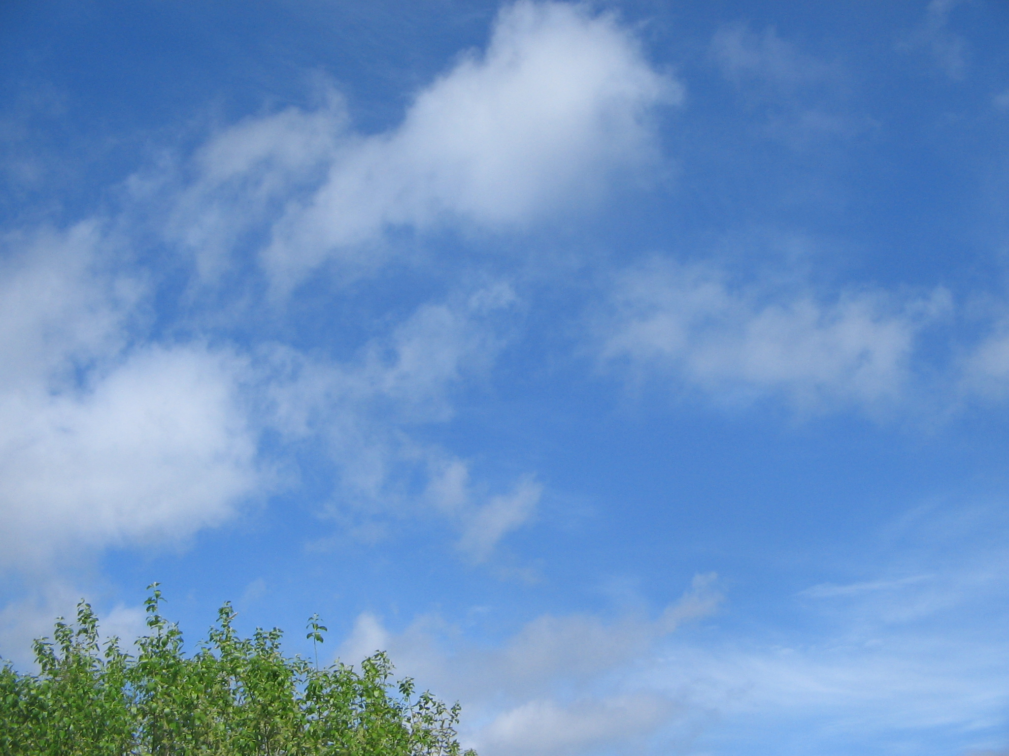 Weather/clouds/Cumulus Fractus (Fractocumulus)